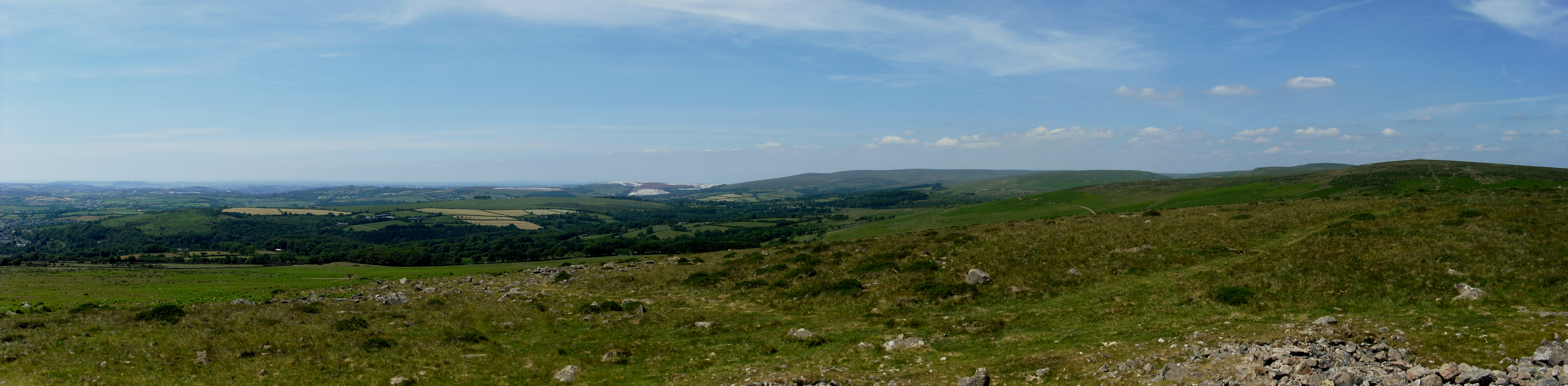 A panoramic view on taken from Western Beacon, Dartmoor, showing Longtimber woods below, much of which encompasses the civil parish of Harford, Devon, England. The surrounding area shows the rest of the South Hams district towards Cornwood parish and beyond.